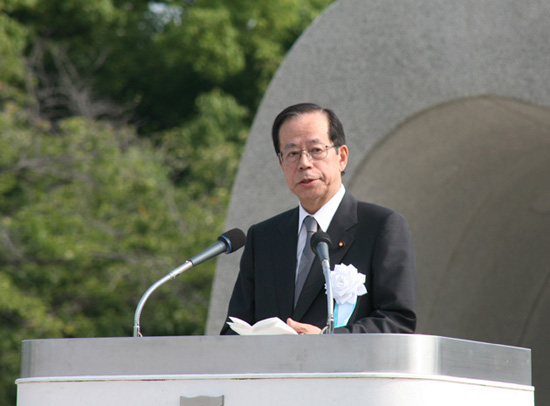 Yasuo Fukuda, Prime Minister, addressed at Hiroshima Peace Memorial Ceremony at Hiroshima Peace Memorial Park in Hiroshima City, Hiroshima Prefecture on August 6, 2008.